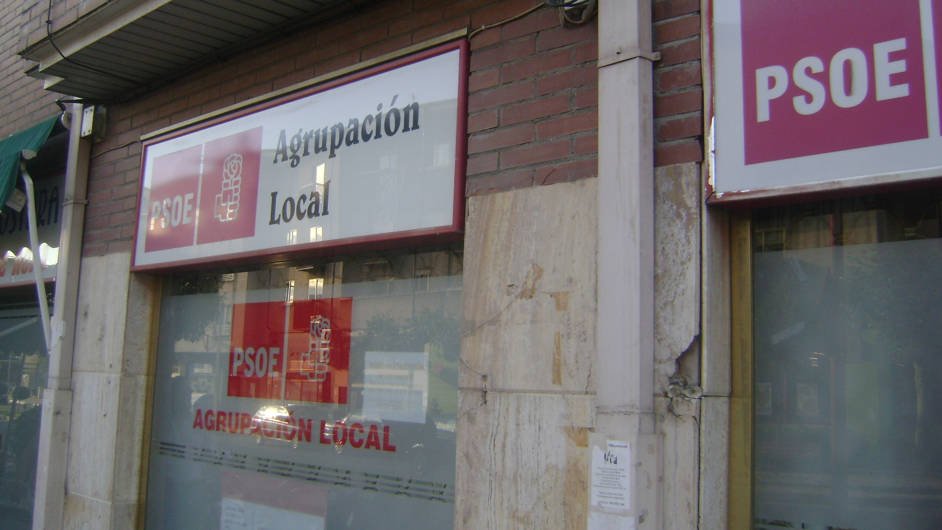 Sede del PSOE de Santa Marta en Tormes (Salamanca)